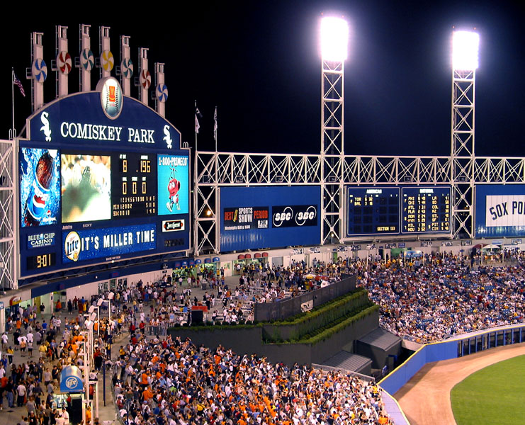 This is a picture of New Comiskey Park that I took myself from the Upper Deck on the third base side.